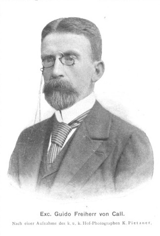 Photograph of Guido von Call (1849-1927), Austrian diplomat and politician